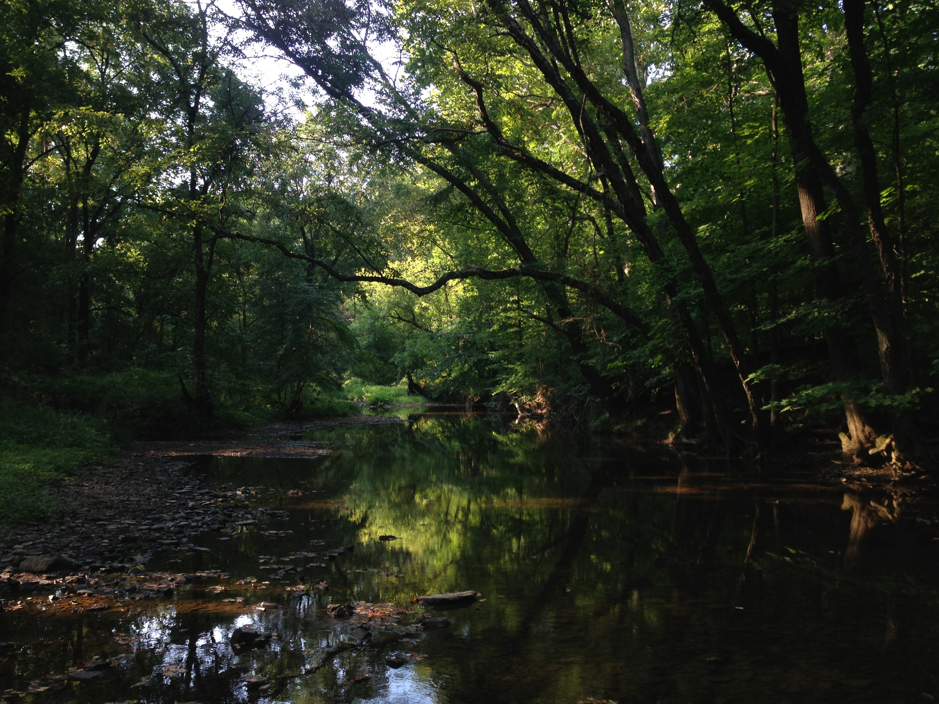 View up the Stony Brook from the Stony Brook Trail in the Stony Brook-Millstone Watershed Association, New Jersey